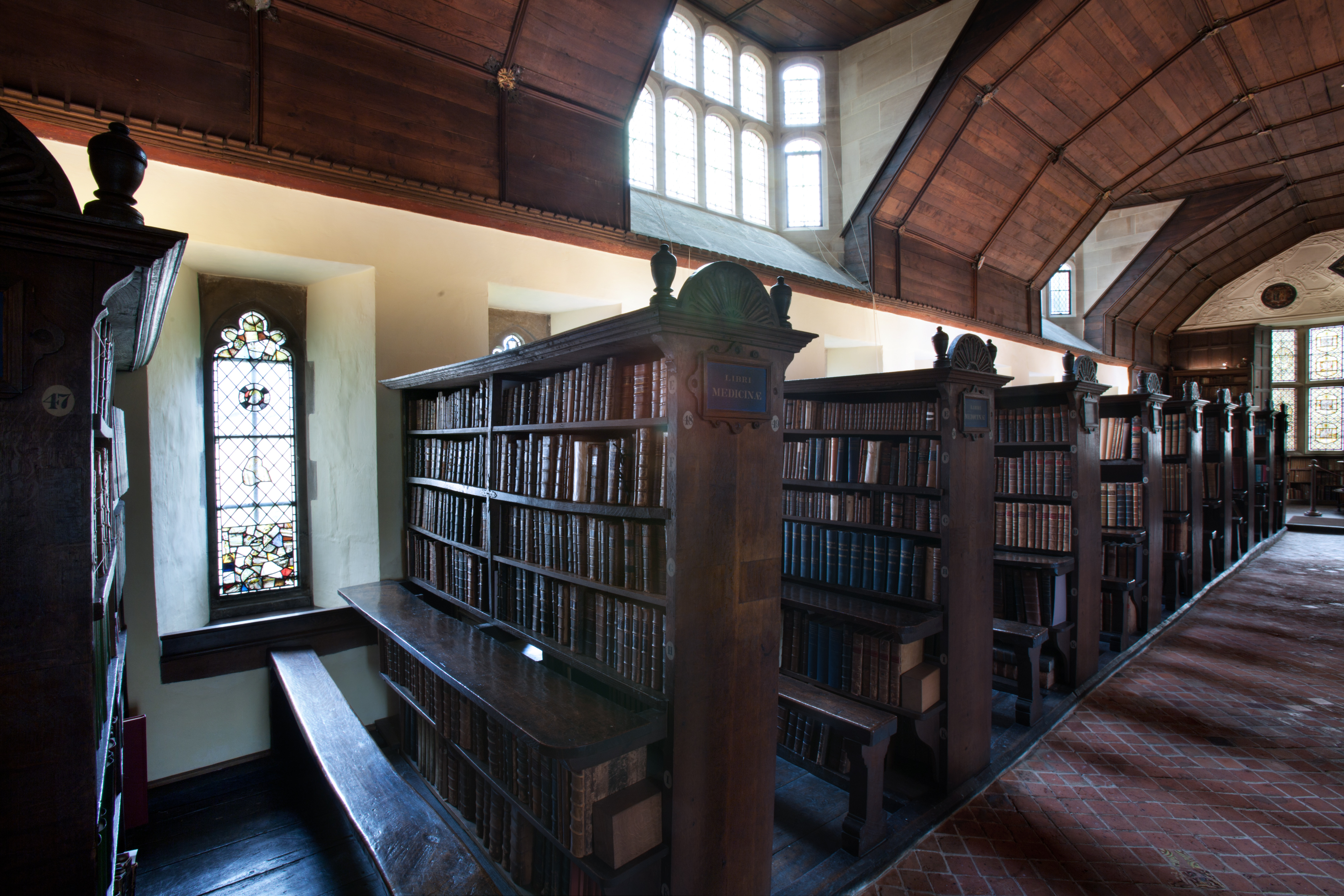 Library at Merton College, Oxford, UK